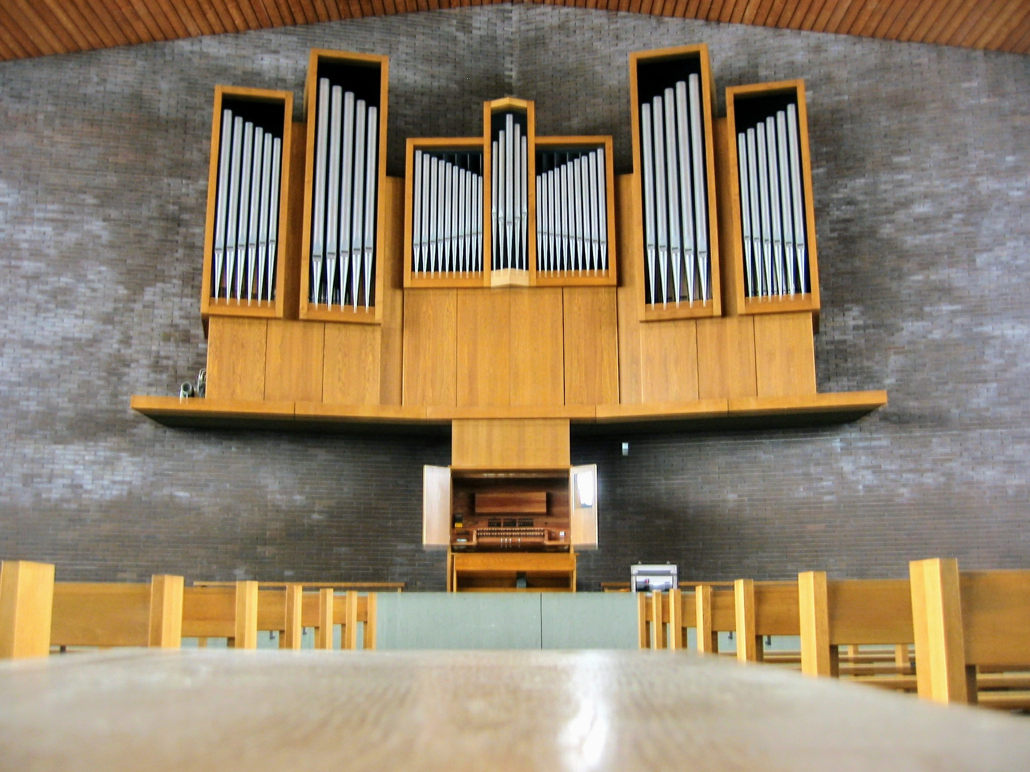 Pipe organ of the former Church of the Holy Spirit in St. Wendel (Saarland)